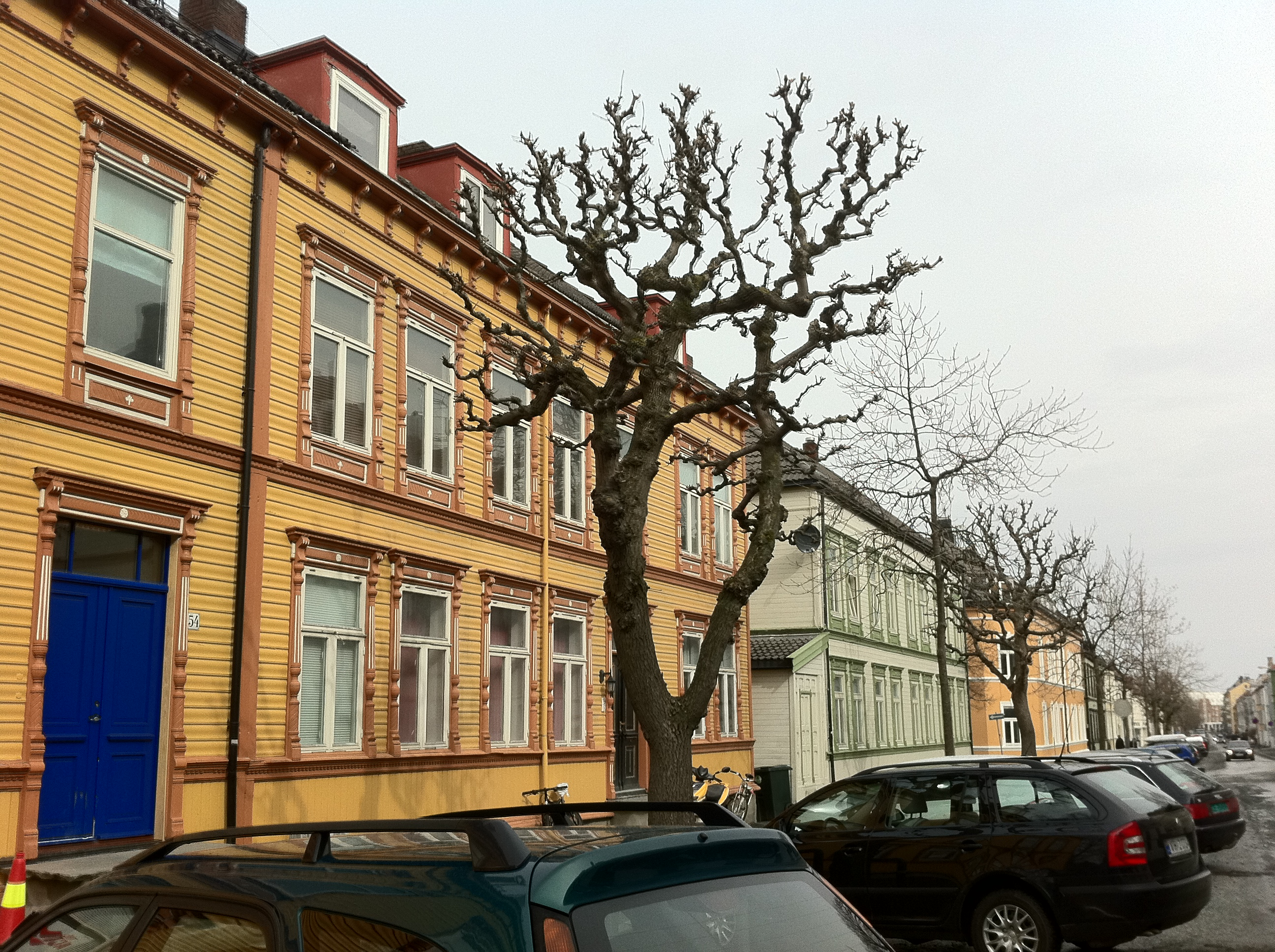 Nedre Møllenberg street in Trondheim. Wooden buildings, late 19th century, typical for the area.